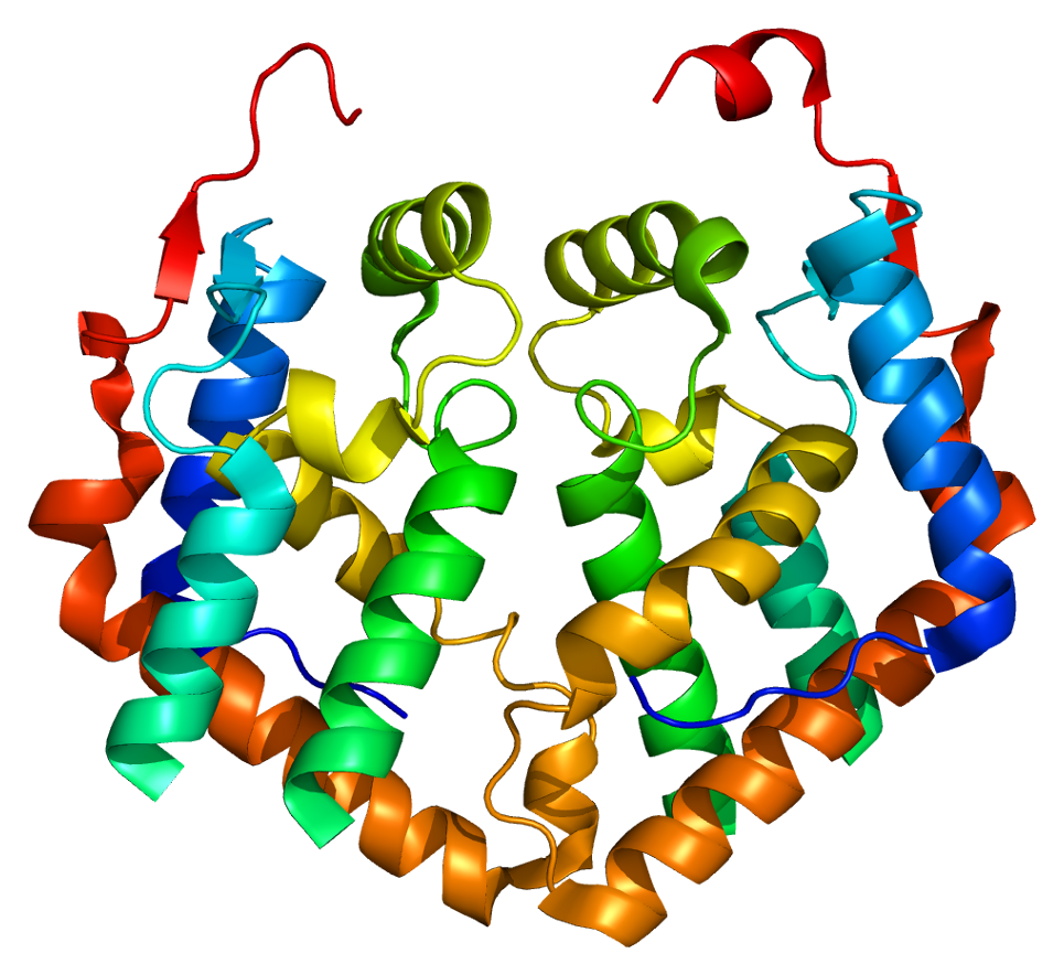 Structure of the MORF4L1 protein. Based on PyMOL rendering of PDB 2aql.